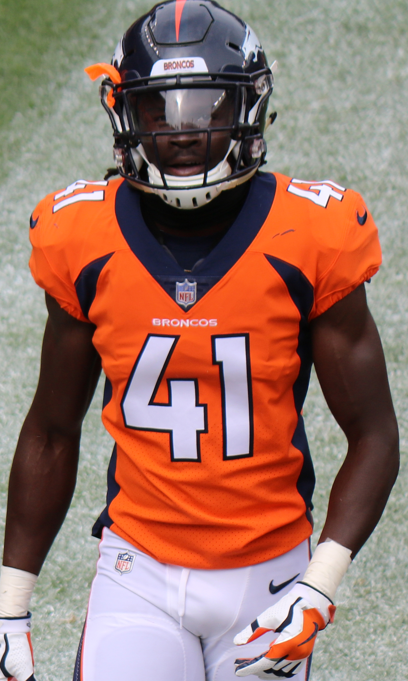 Isaac Yiadom, a National Football League player.